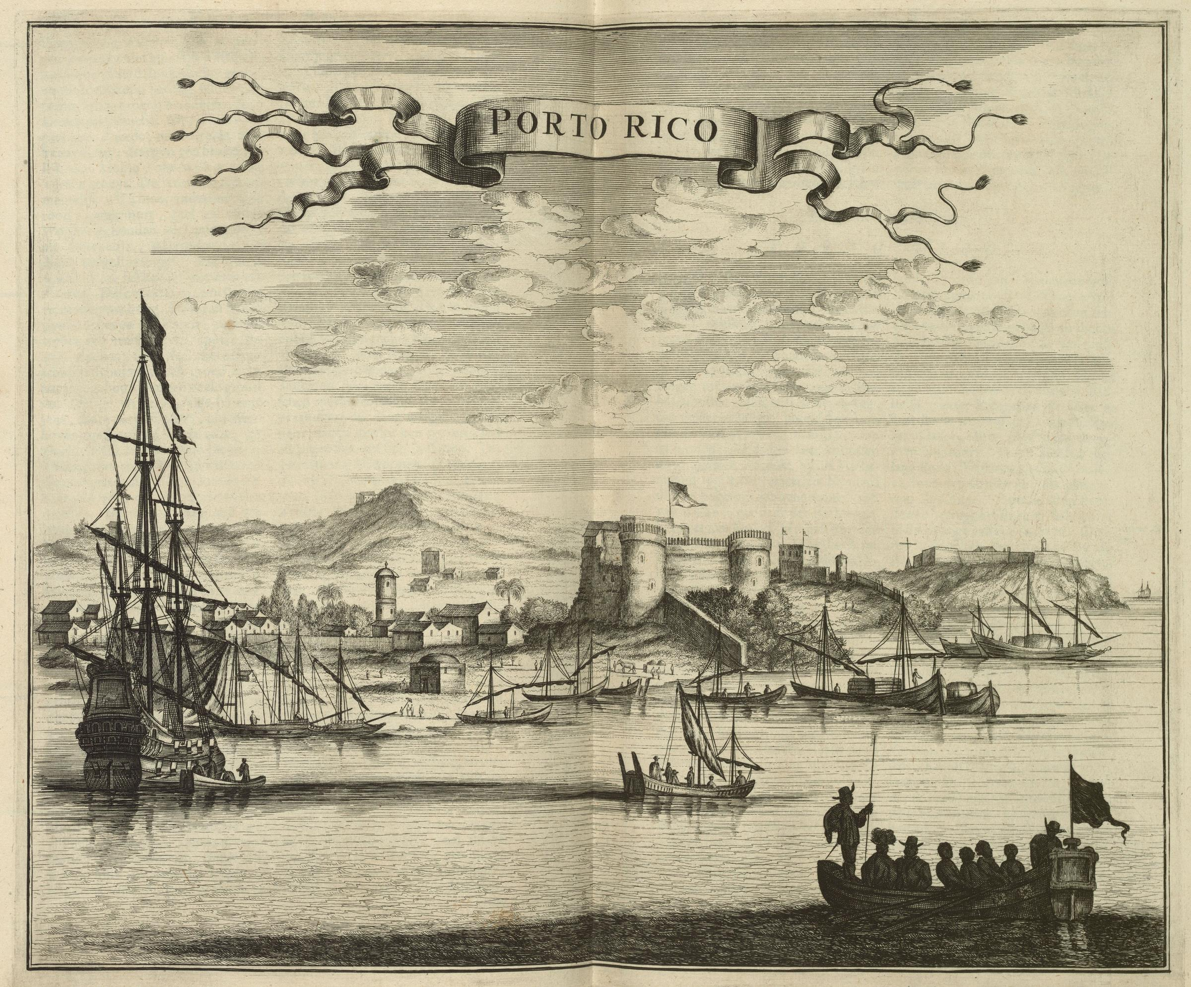 View of Puerto Rico. Porto Rico. A ship flying the Dutch flag lies in the harbour. The city of Puerto Rico was never entirely in the hands of the Dutch West India Company. They only held the fort of Canuela for a few months in 1625.